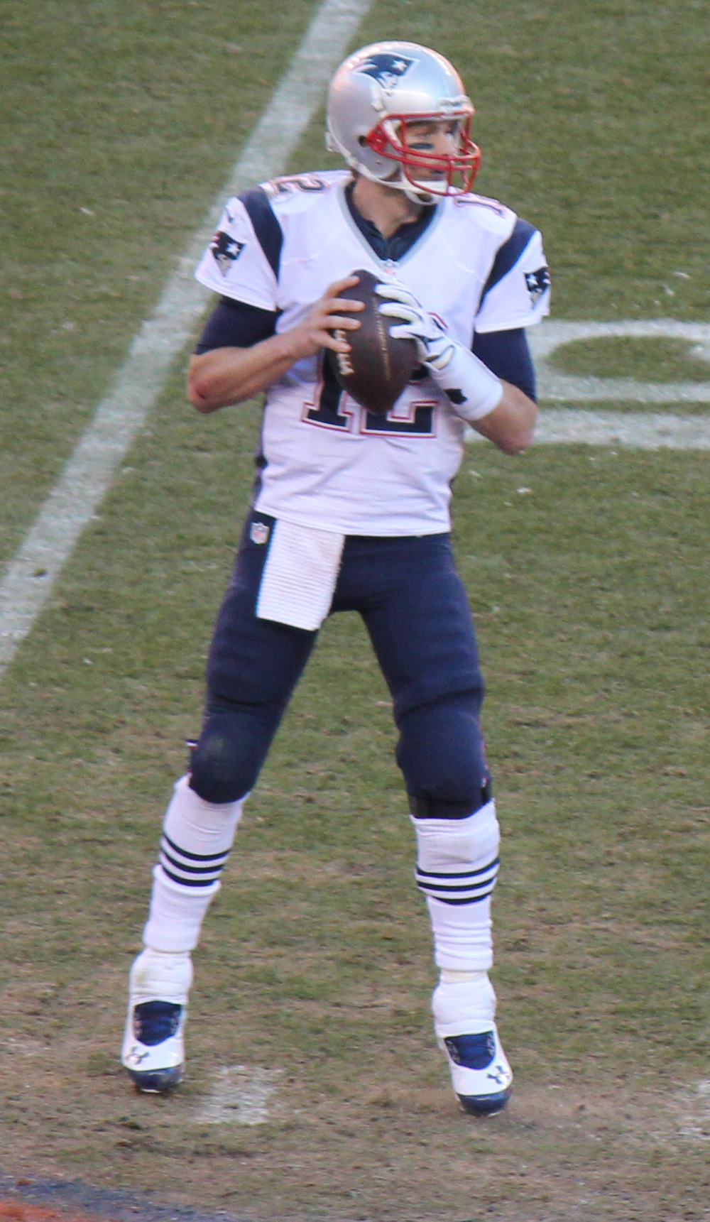 Tom Brady in the AFC Championship in Denver, Jan 19th, 2014.